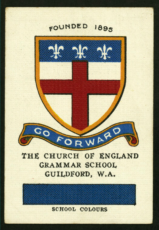 Cigarette Card collector series featuring Crests and colours of Australian Universities, colleges and schools: Guildford Grammar School.